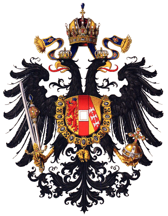 Lesser coat of arms of the Austrian Empire form the Congress of Vienna in 1815 until the Austro-Hungarian Compromise of 1867. It then represented the Cisleithanian territories of Austria-Hungary in the Reichsrat until 1915. It shows the arms of Habsburg-Lorraine encircled by the chain of the Order of Golden Fleece, surmounted on the crowned Austrian imperial double-headed eagle clutching in its claws the Imperial orb, sceptre and sword, with the Imperial Crown of Rudolf above. After 1915 the inescutcheon only displayed the red-white-red arms of Austria. Reference: Peter Diem: Die Entwicklung der Wappen der Österreichisch-Ungarischen Monarchie., Peter Diem: Die Entwicklung des österreichischen Doppeladlers.